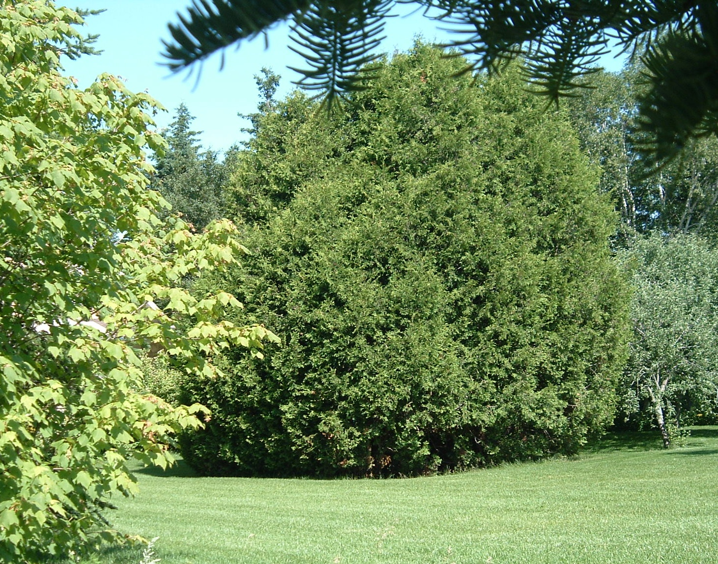 Naturally grown and untouched bunch of Thuyas, in Eastern Quebec region. Approximately 80 years old. Photo taken on 2008/07/19